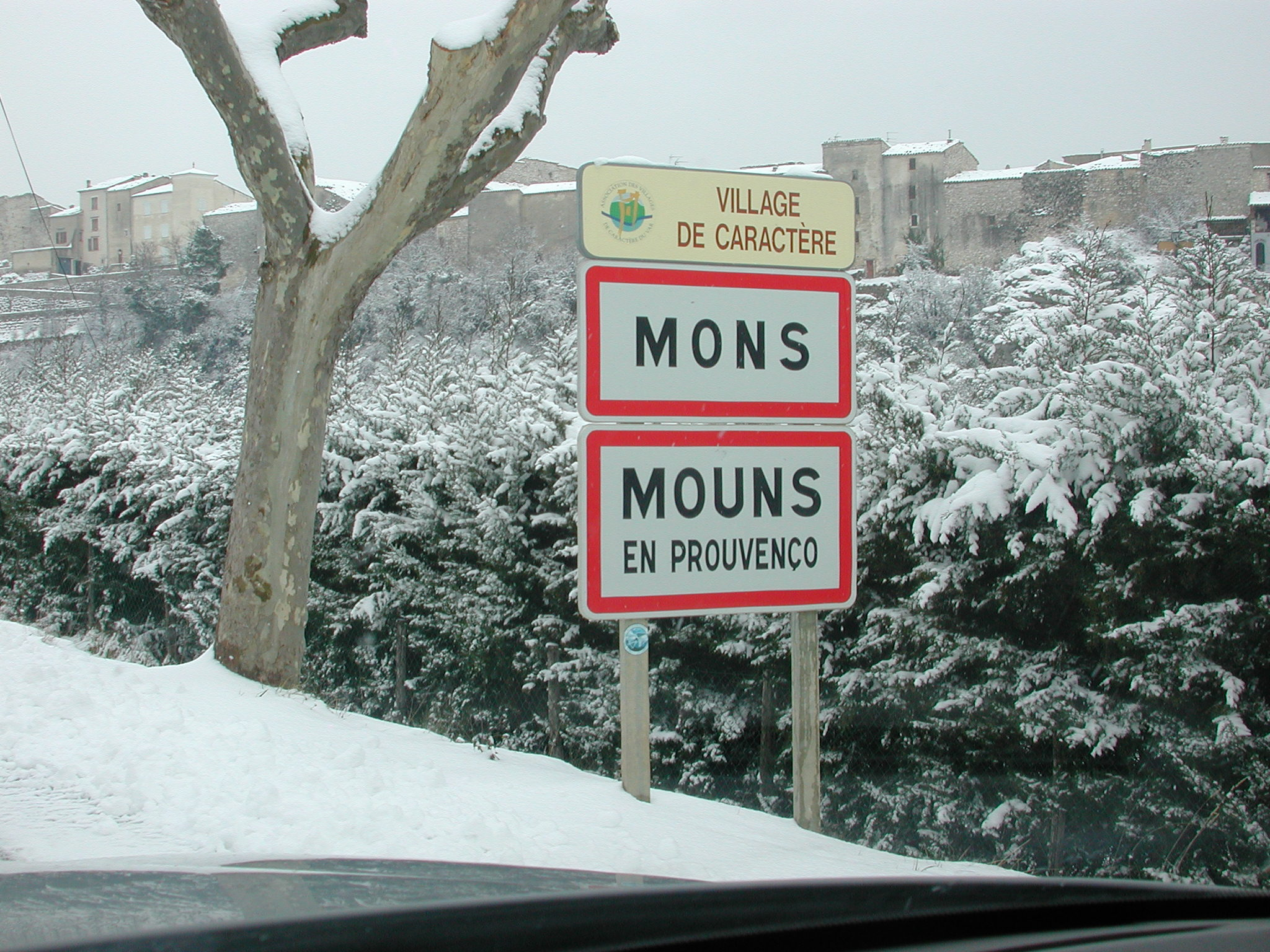 Mons(Var) in winter